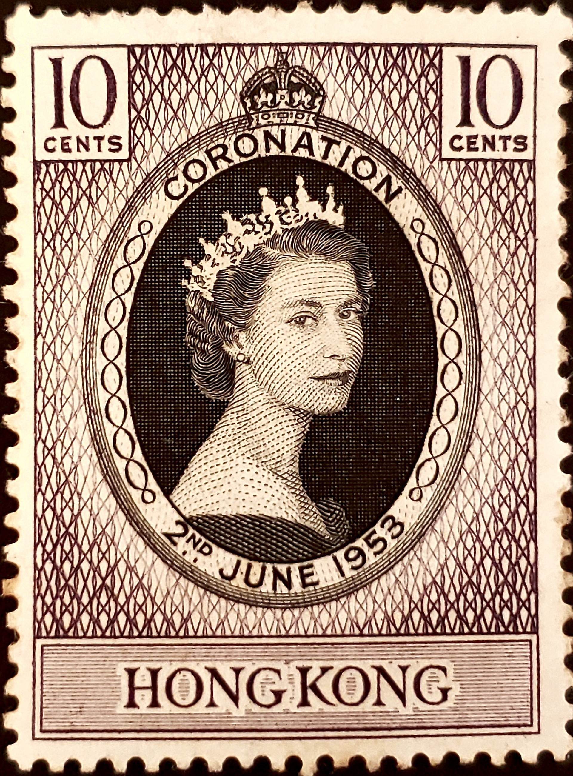 10 cents commemorative stamp of Hong Kong issued 1953 for the coronation of Queen Elizabeth II.